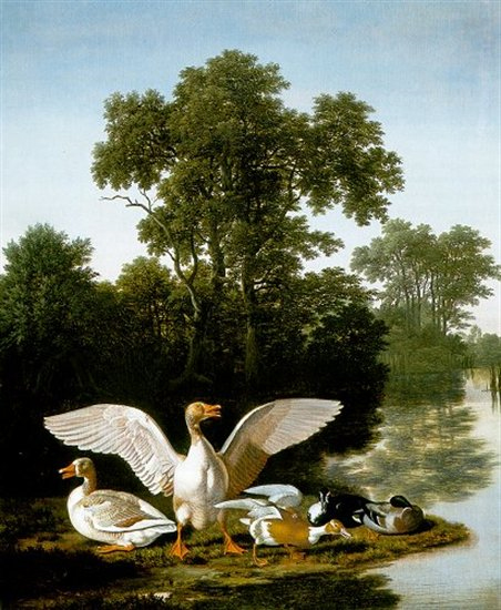 Waterbirds in a landscape